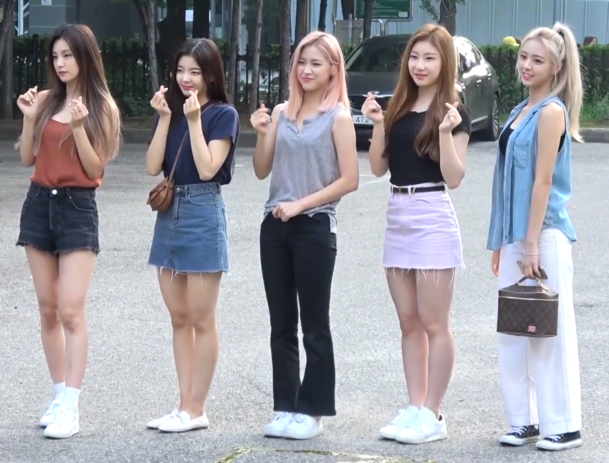 Itzy going to a Music Bank recording on August 8, 2019.